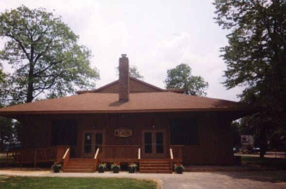 Monon Park Dancing Pavillion